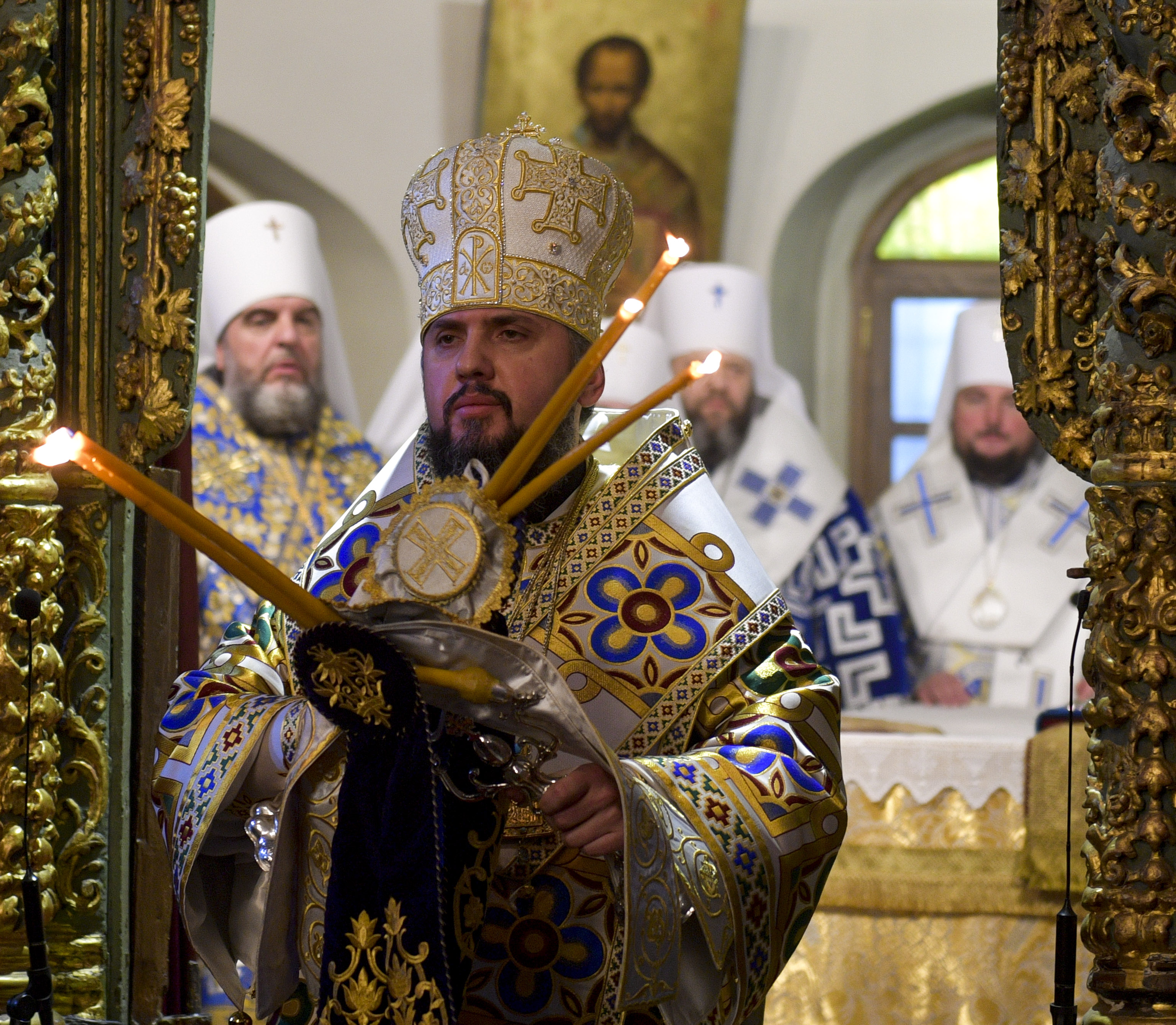 Working visit of the President of Ukraine Petro Poroshenko to the Turkish Republic